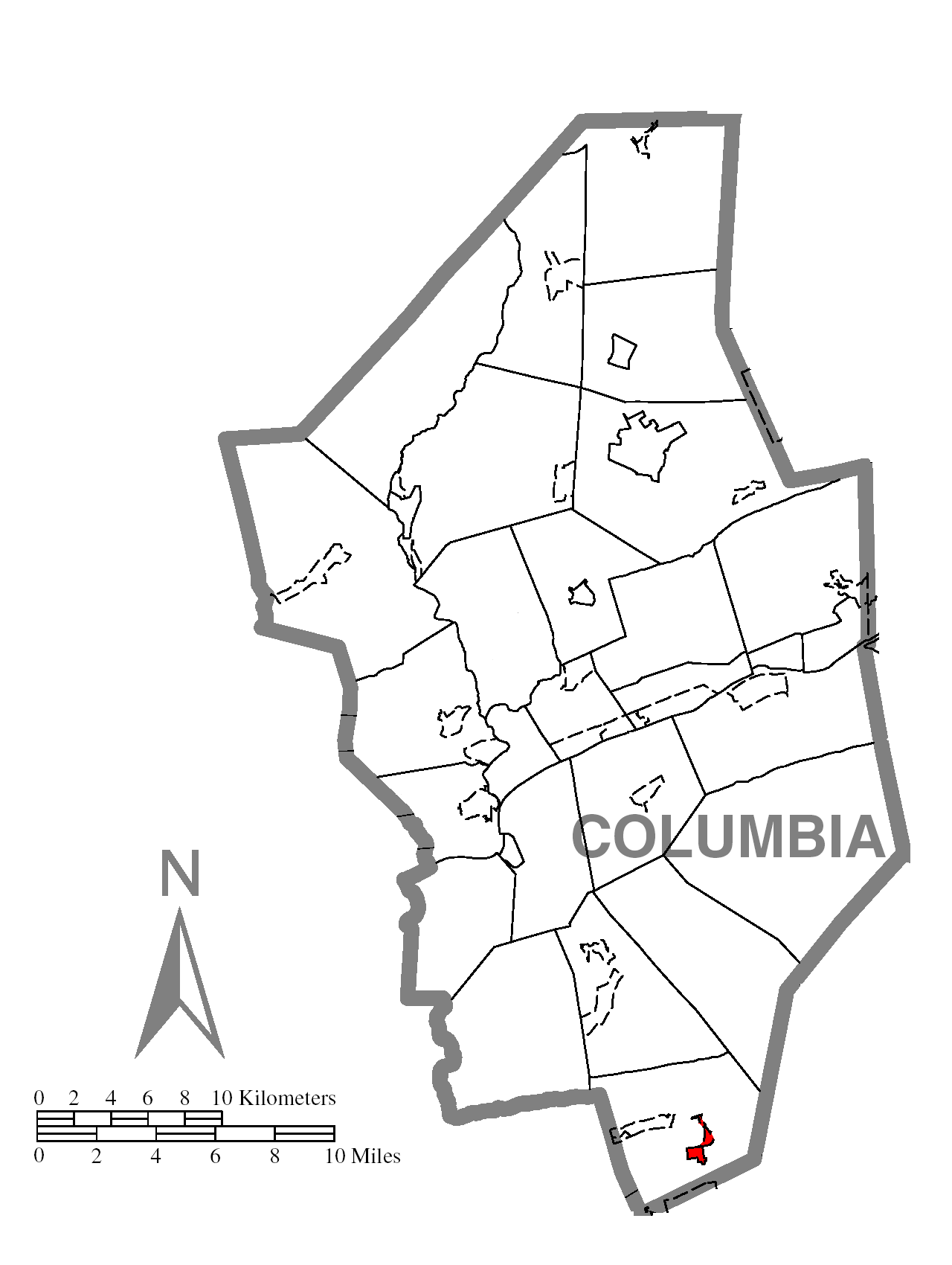 A map of Columbia County showing Aristes, Pennsylvania (alternate) highlighted on the map.